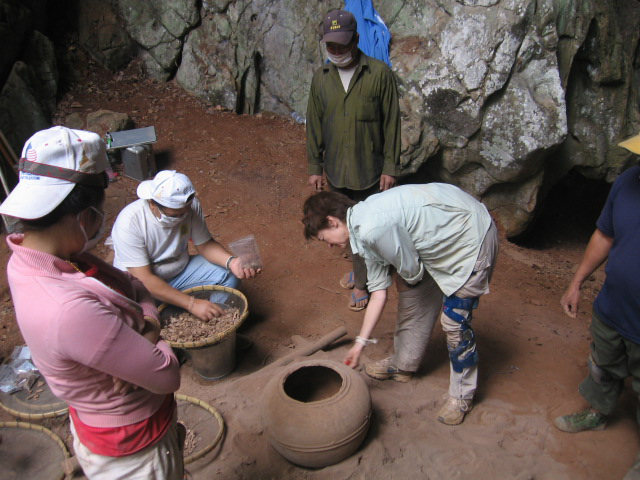 In 2008, MMAP undertook a test excavation at the Tham Vang Ta Leow rockshelter in northern Laos. During the field season, evidence for Stone Age occupation dating back to 11,000 years ago was found in the rockshelter.